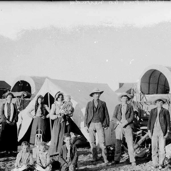 Photograph of Joseph Smith Leavitt and family, Lund, White Pine County, Nevada. The family is gathered in front of a tent, with wagons behind them, and in the distance, a house or a station. Joseph Smith Leavitt (1860-1936) was born in Santa Clara, Washington County, Utah, and died in Mesquite, Clark County, Nevada . He was an early Mormon pioneer of the region. Gelatin dry plate negative. 5 in. x 7 in. Courtesy of the George Anderson Collection, Harold B. Lee Library, Brigham Young University.